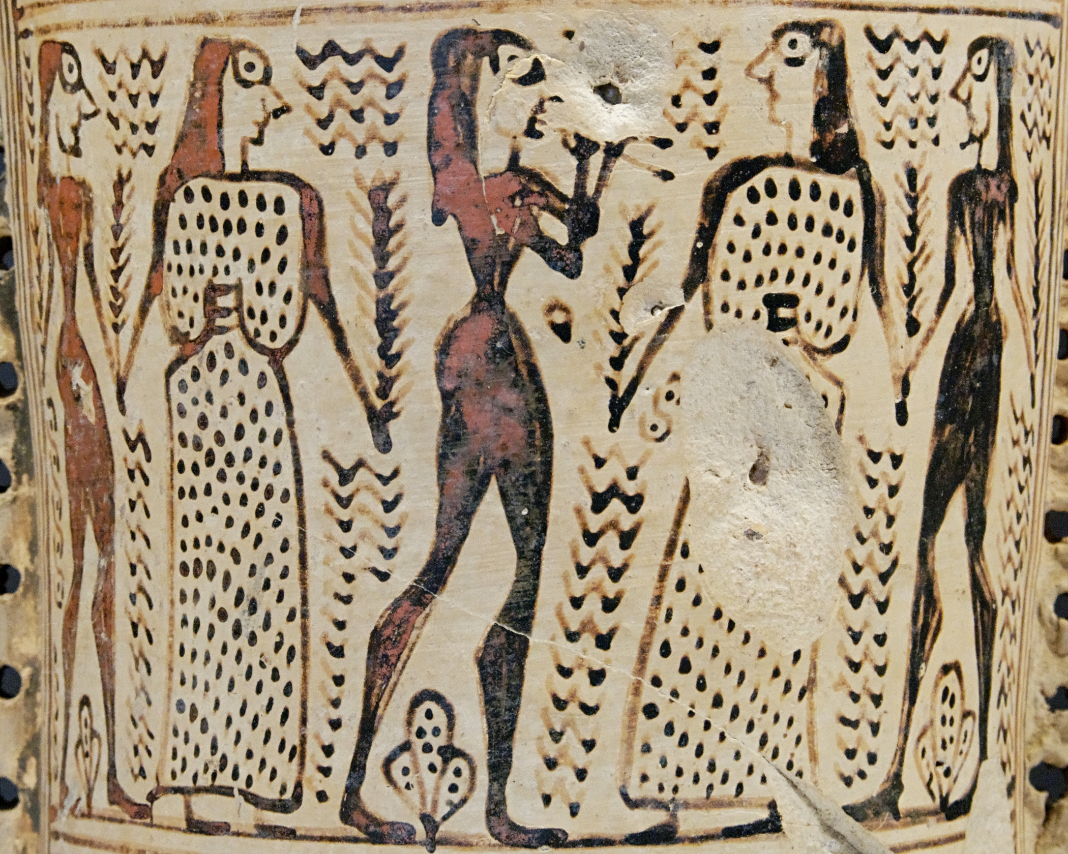 Couples dancing to the sound of the aulos. Neck of a proto-Attic loutrophoros.